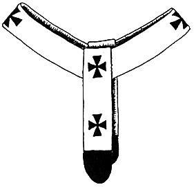 Pallium as worn by metropolitan archbishops.